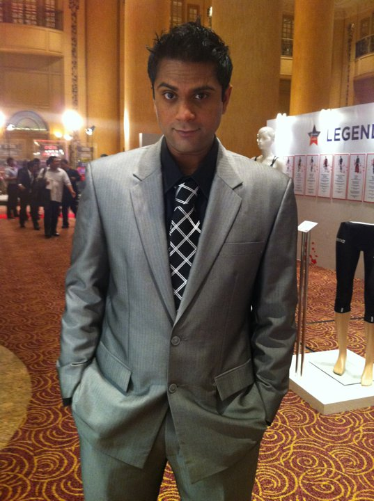 Astro Arena 1st year Anniversay